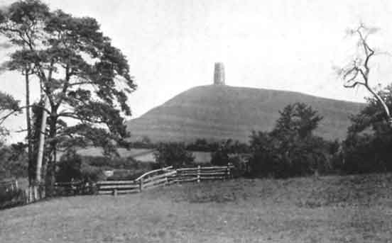 Glastonbury Tor - Somerset Title: Somerset Author: G.W. Wade and J.H. Wade Release Date: May 7, 2004 EBook #12287